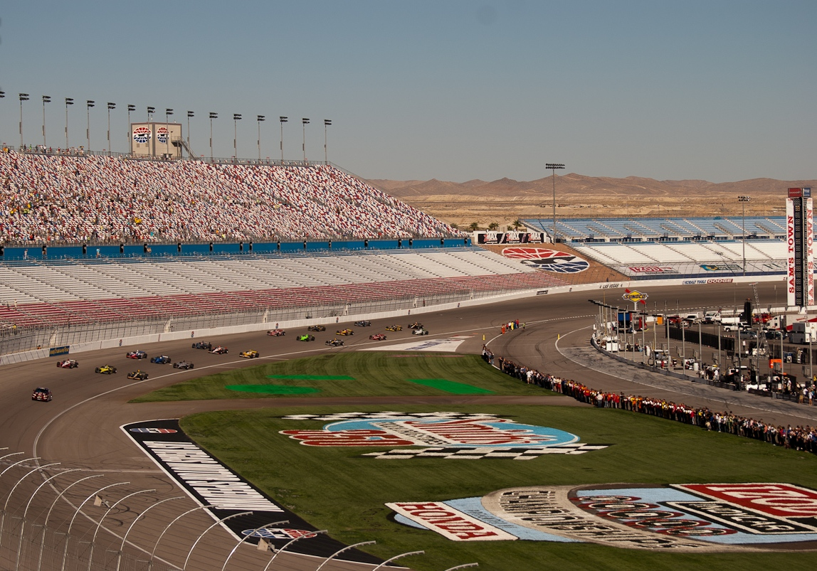 In honor to their friend, competitor and race driver the remaining field did 5 laps 3 wide to the music of Amazing Grace and a standing crowd to honor Dan Wheldon after his horrific crash from which he sustained injuries that claimed his life. On the infield the pit personal, track officials and safety crew where lined up on the white line along he pit straight. This crash should not had such a bad ending. The new Indycar chassies is arriving one race to late.